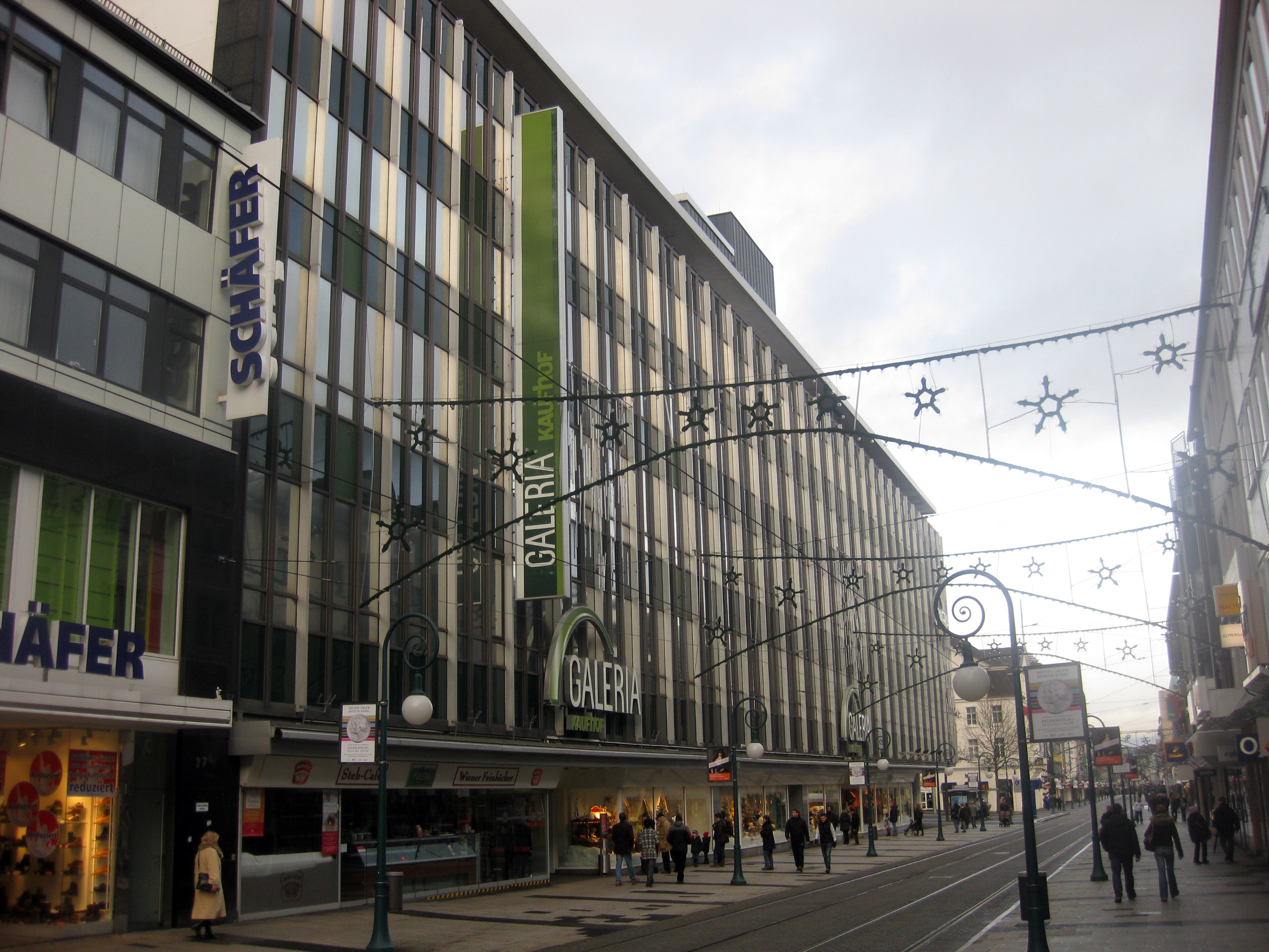 Department store Kaufhof at the Obere Königsstraße in Kassel